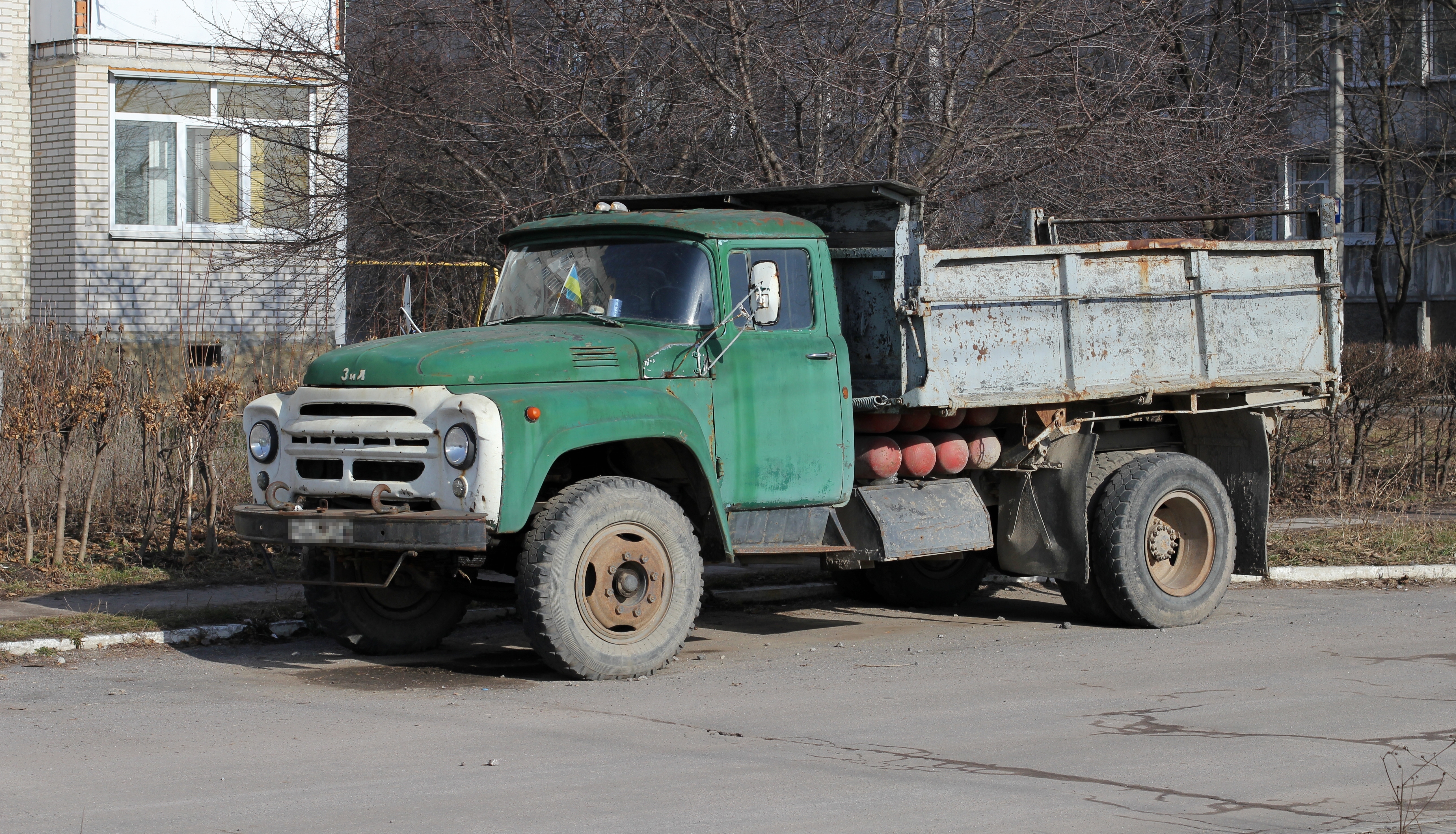 Old Soviet truck ZiL-130, early modification. Ukraine, Vinnitsa.